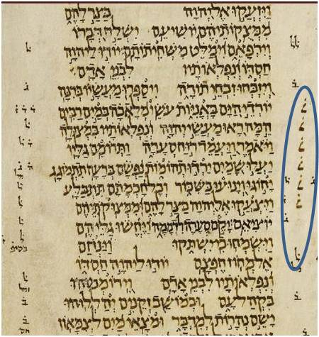 Inverted nun (6) in Aleppo Codex, (Psalms. 107, 23-28)